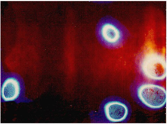 A Kirlian photograph taken of a human hand.